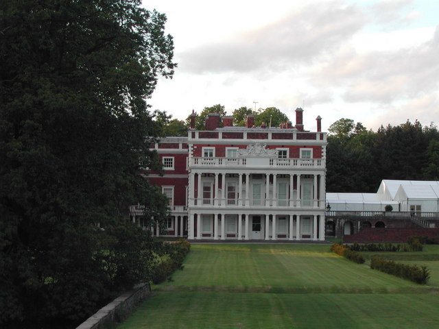 Knowsley Hall This historic house has been in the ownership of the Stanley Family since 1385.